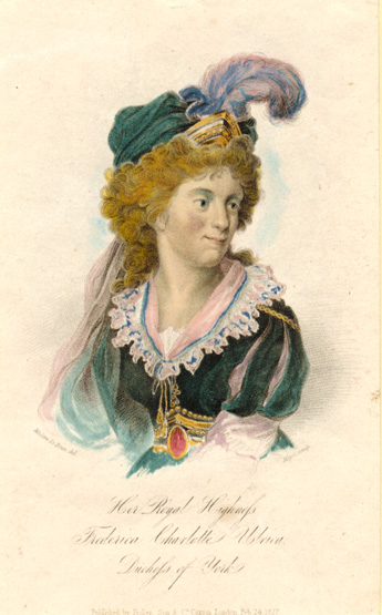 Friederike von Preußen (1767–1820) Princess Frederica Charlotte of Prussia Frederica Carlota de Prússia Federica Carlota de Prusia Fryderyka Charlotta von Hohenzollern